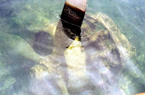 WWII Catalina flying boat Pratt & Whitney R-1830 engine and propeller